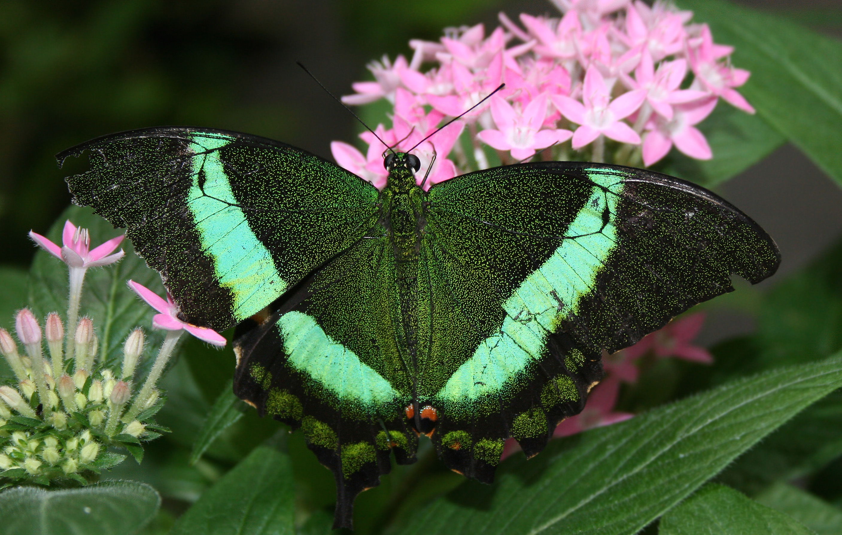 Emerald Swallowtail Butterfly (Papilio palinurus) showing its age at the Metro Toronto Zoo. P. palinurus or Papilio blumei? Dysmorodrepanis (talk) 00:32, 1 August 2010 (UTC) This is P. palinurus. Among others, P. blumei has a mainly bluish-green dorsal surface of the tail. P. palinurus is commonly bred in butterfly farms, but at present P. blumei isn't. 62.107.220.175 17:00, 21 October 2013 (UTC)